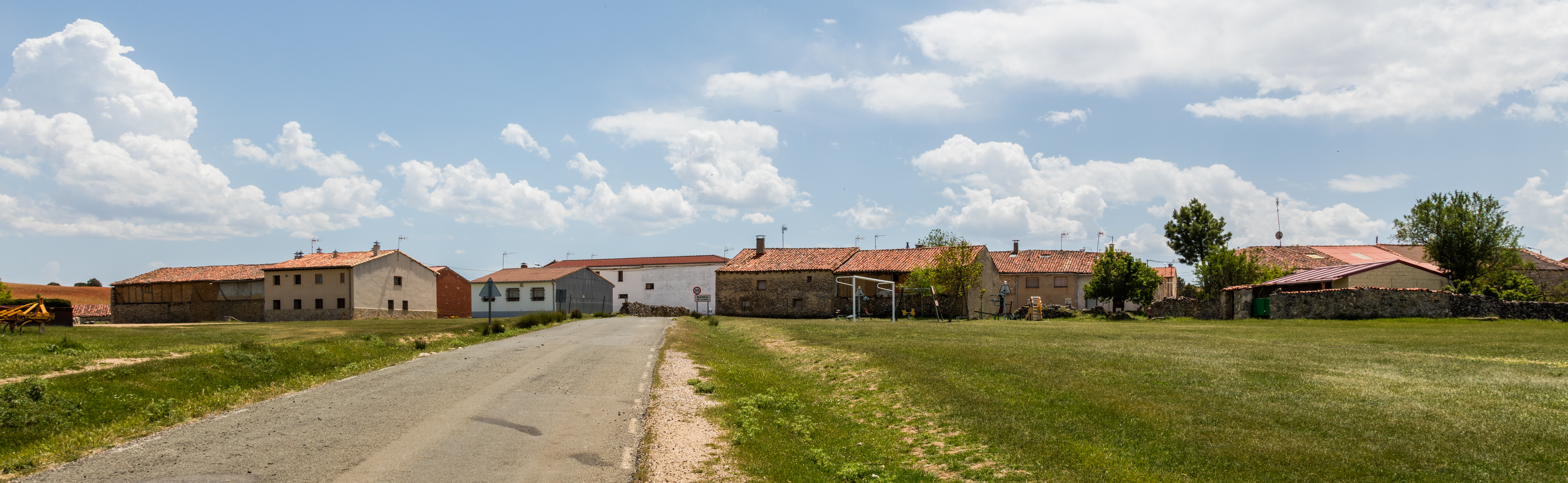 Nafría de Ucero, Soria, Spain